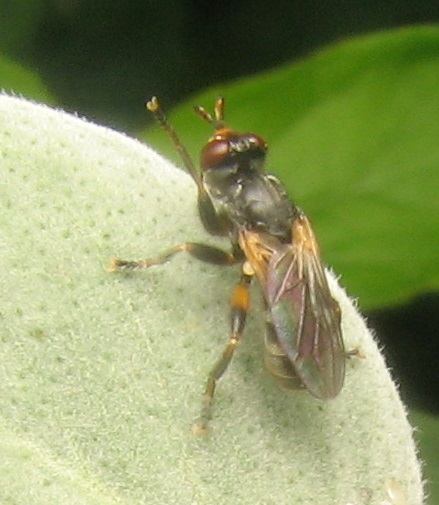 Thick headed fly, Thecophora. Pennypack Restoration Trust, Montgomery County, Pennsylvania, USA.